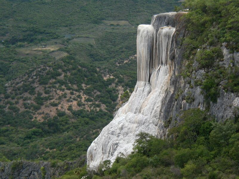 Hierve el Agua, a rock formation formed by mineral deposits, mainly calcium carbonate, resemble a waterfall. It is located in San Lorenzo Albarradas, Oaxaca state, Mexico.